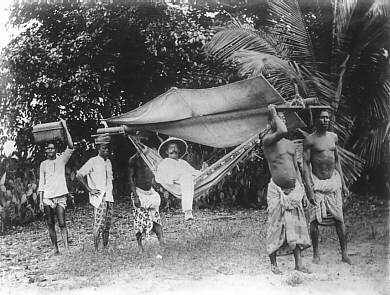 Picture of a German colonial lord in Togo (c. 1885)